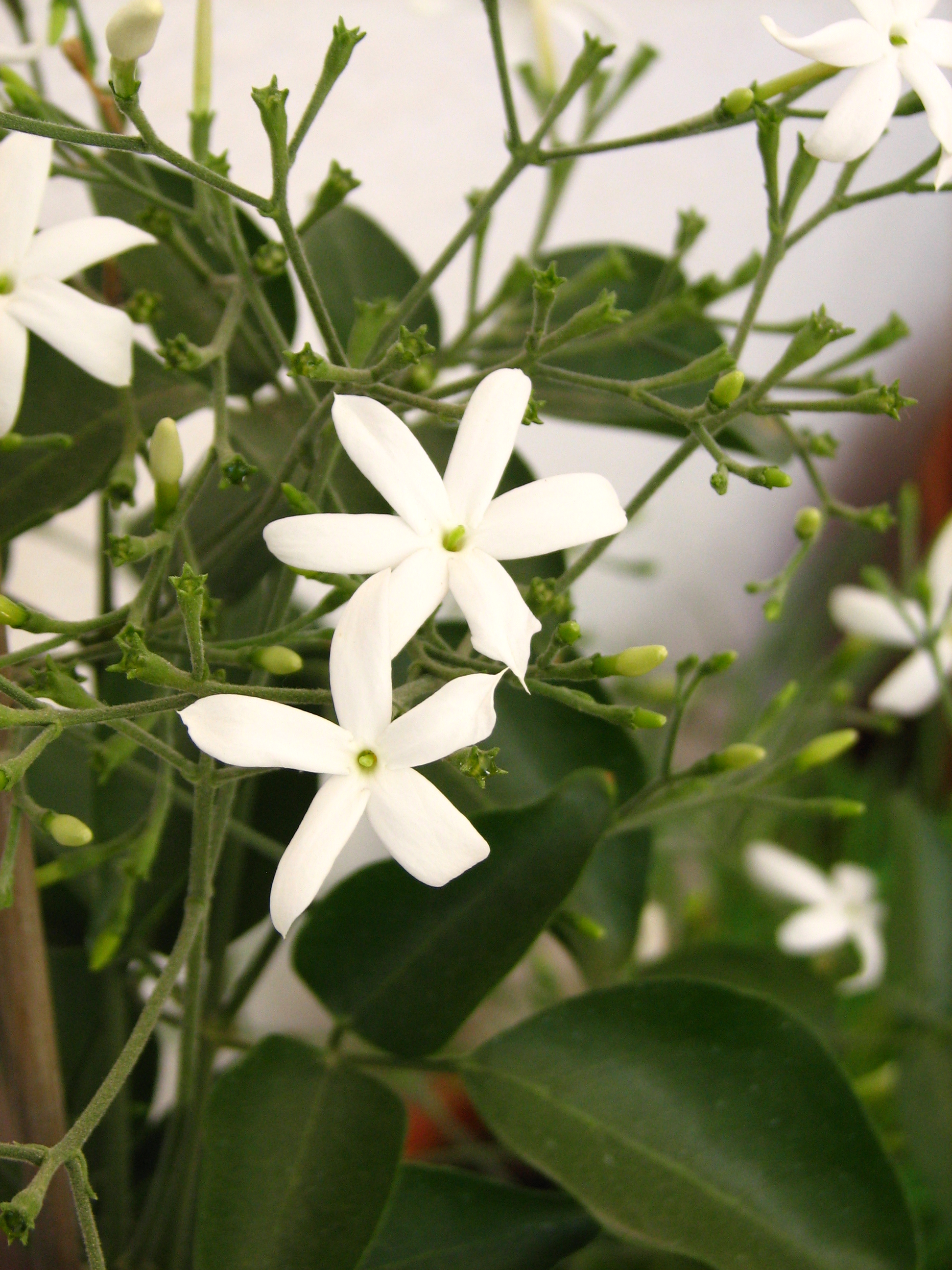 Jasminum azoricum. S. Domingos de Rana - Cascais - Portugal